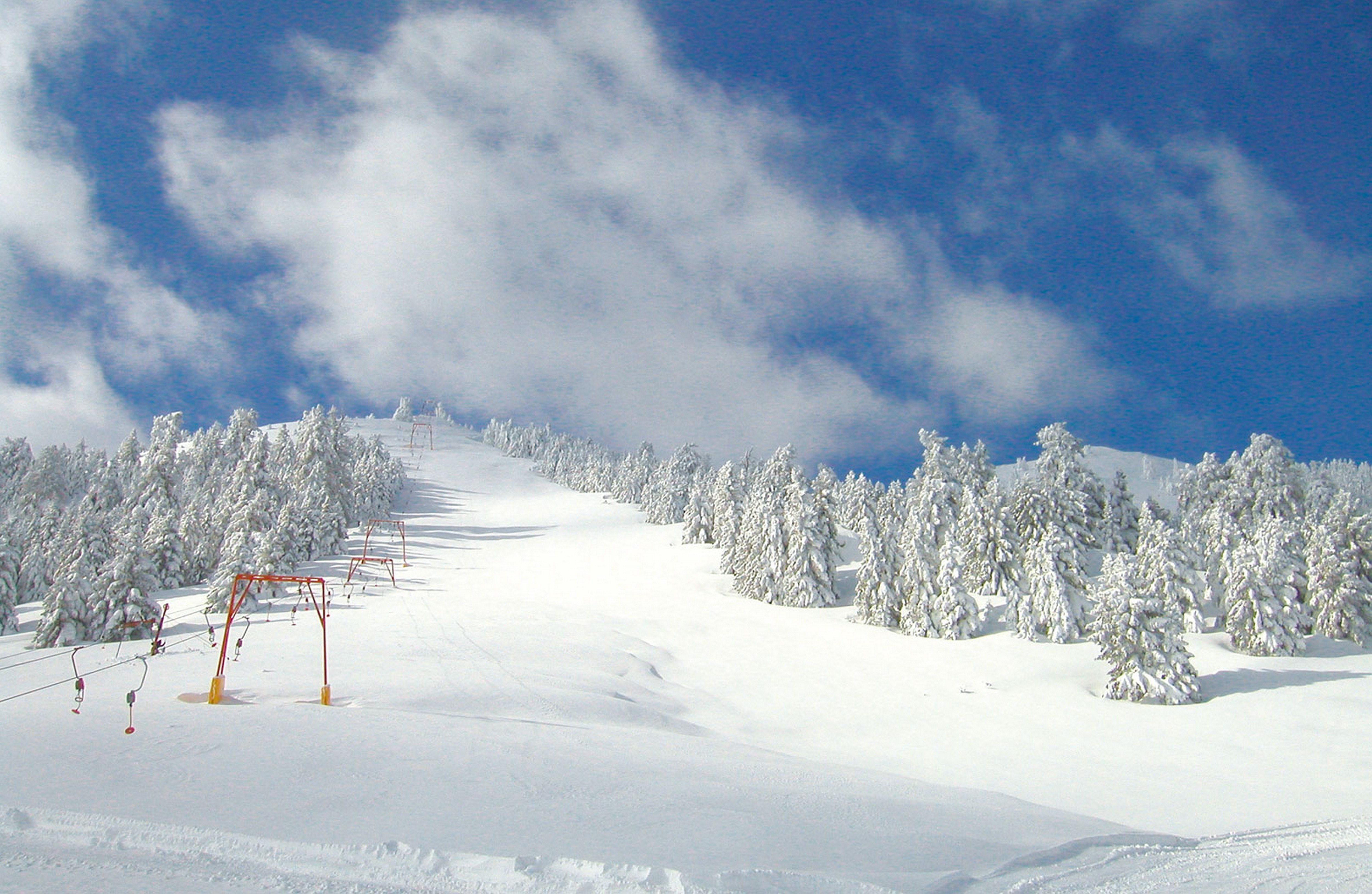 Ostrakina